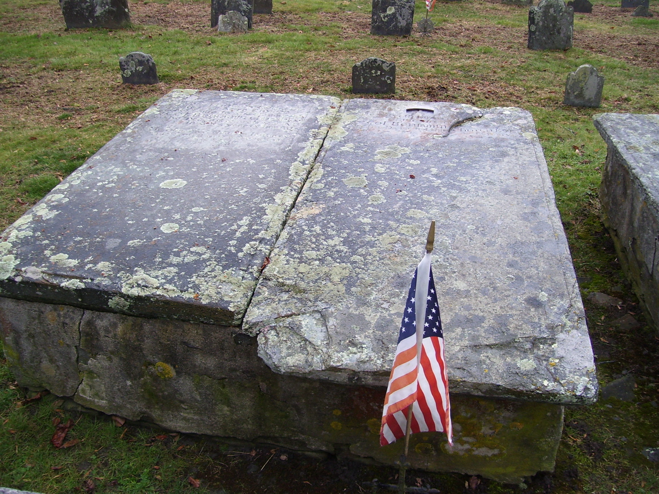 Benjamin Church grave in Little Compton, Rhode Island, USA.